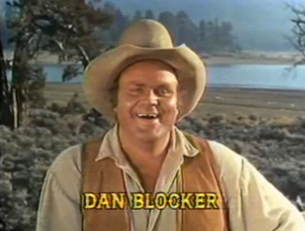 Cropped screenshot of Dan Blocker from the television series Bonanza. Episode: "Bitter Water" (1960).